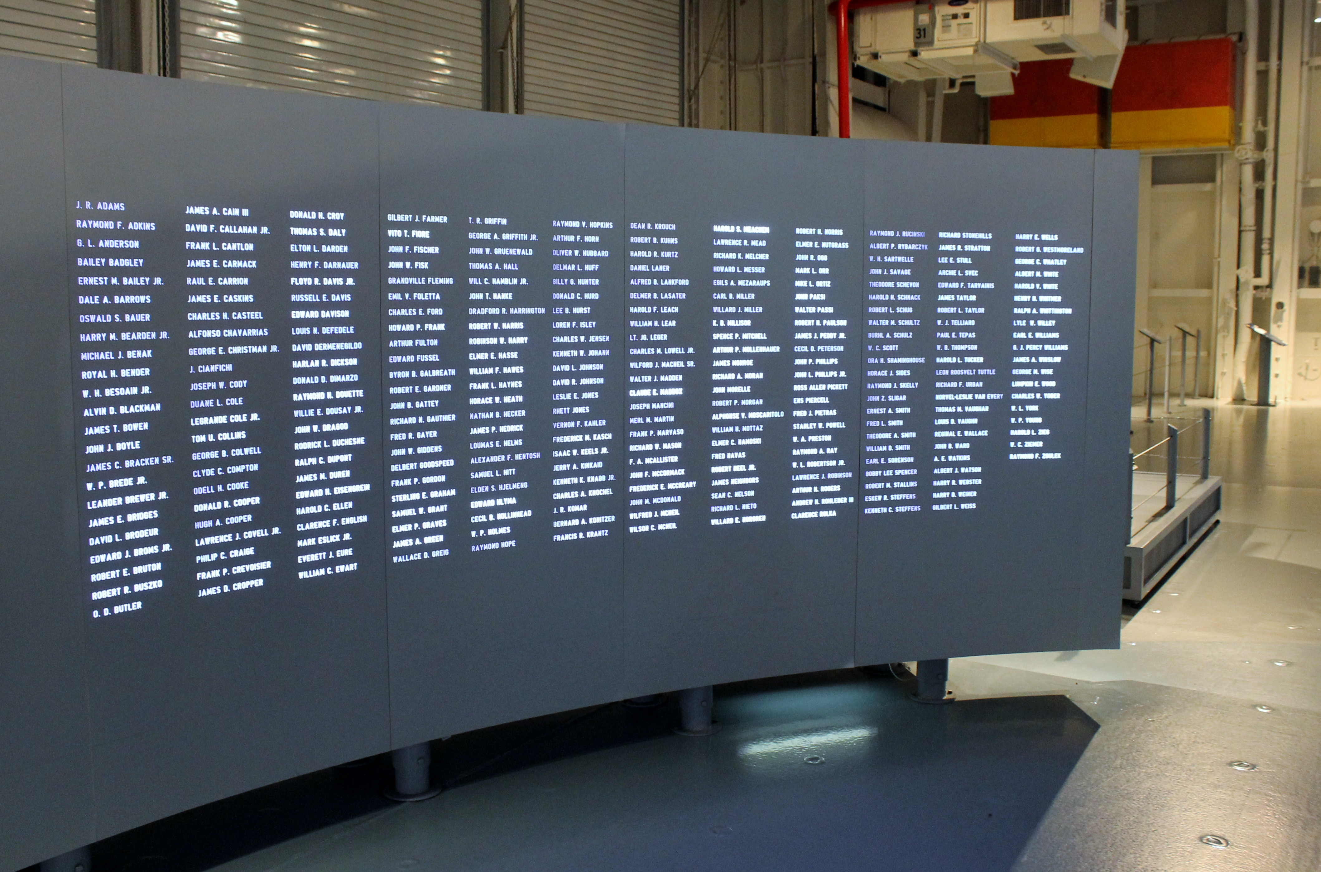 Memorial Wall at U.S.S. Intrepid in New York City